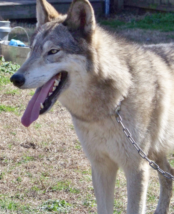 Cindy Matthew's Selene, a high content wolfdog. photo by Cindy Matthews